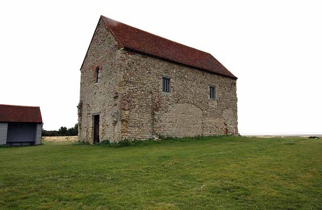 St Peter on the Wall, Bradwell juxta Mare, Essex